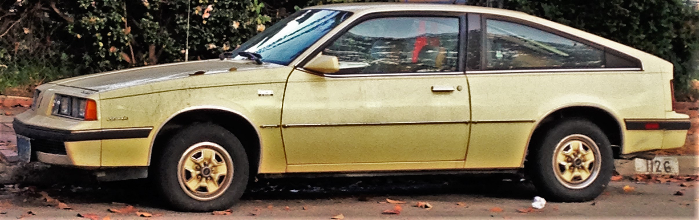 Oldsmobile Firenza Hatchback